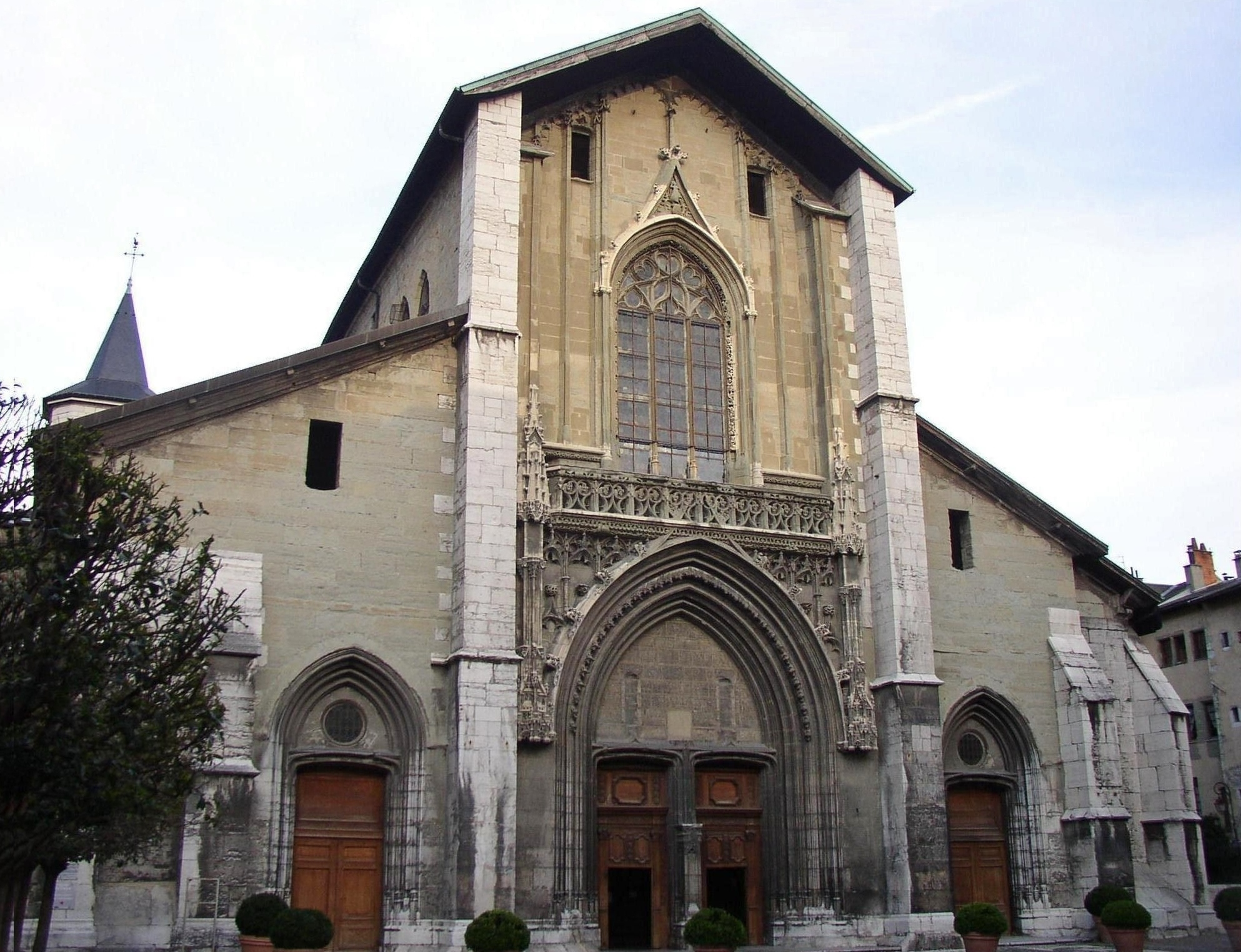 Sight of the Saint-François-de-Sales cathedral of Chambéry (Savoie, France), in 2005.